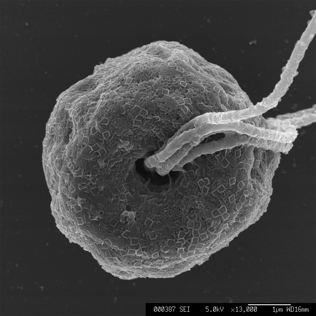 Flagellar pit of Pyramimonas sp. / from Nigaku-Ike of University of Tsukuba, Tsukuba, Ibaraki Pref., Japan / SEM:JEOL JSM-6330F / scale bar = 1.0μm